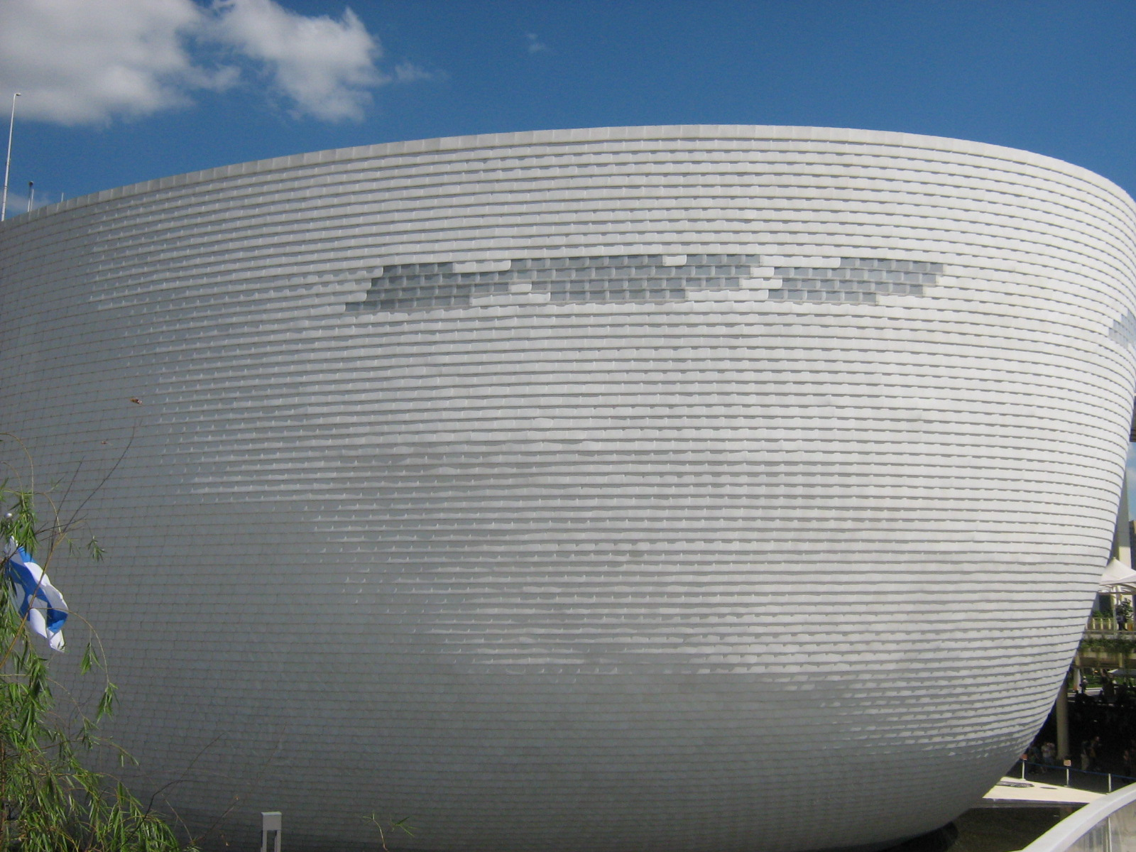 The Finland Pavillion at 2010 Shanghai Expo